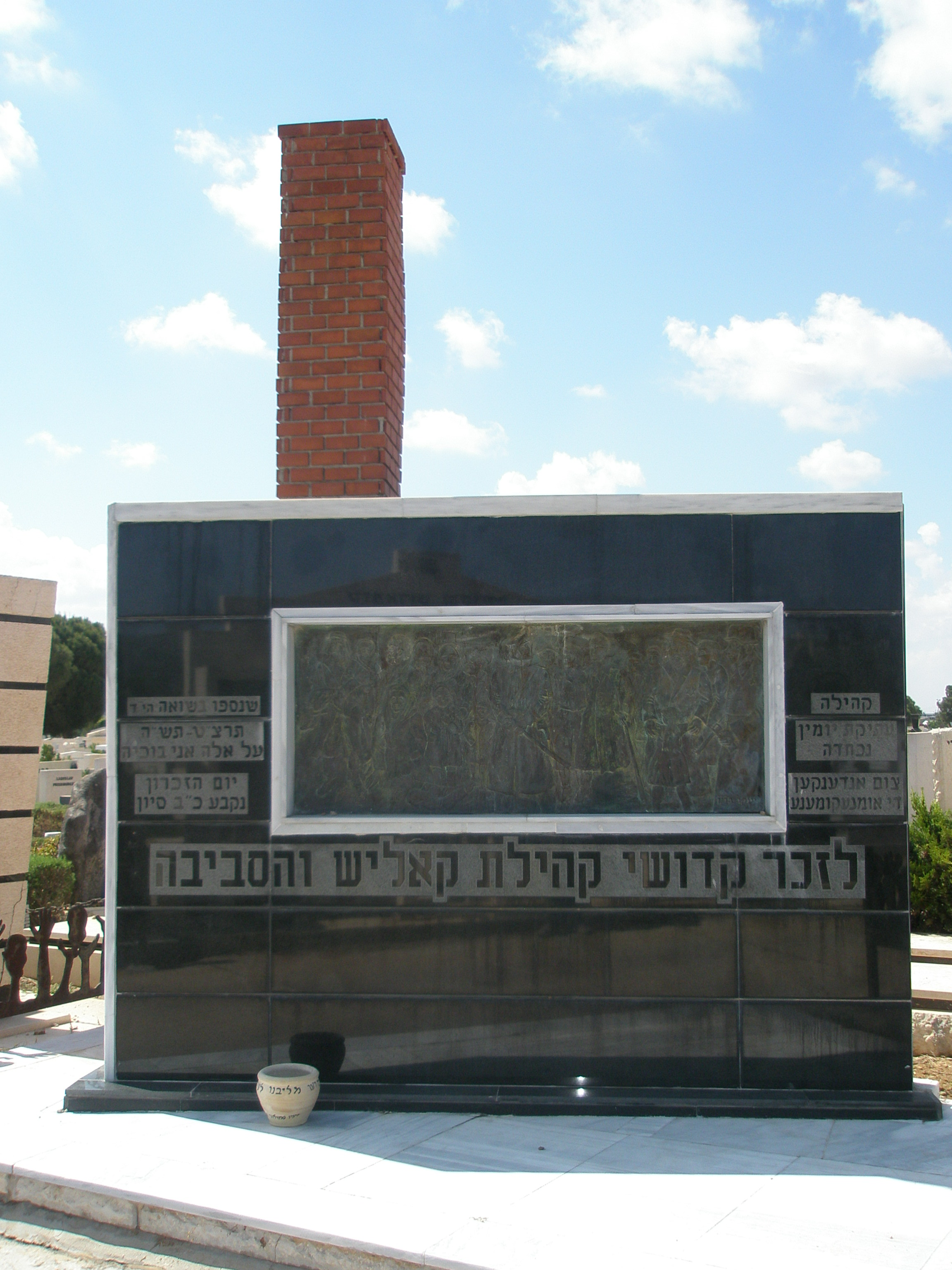 Kalisz memorial at Holon Cemetery